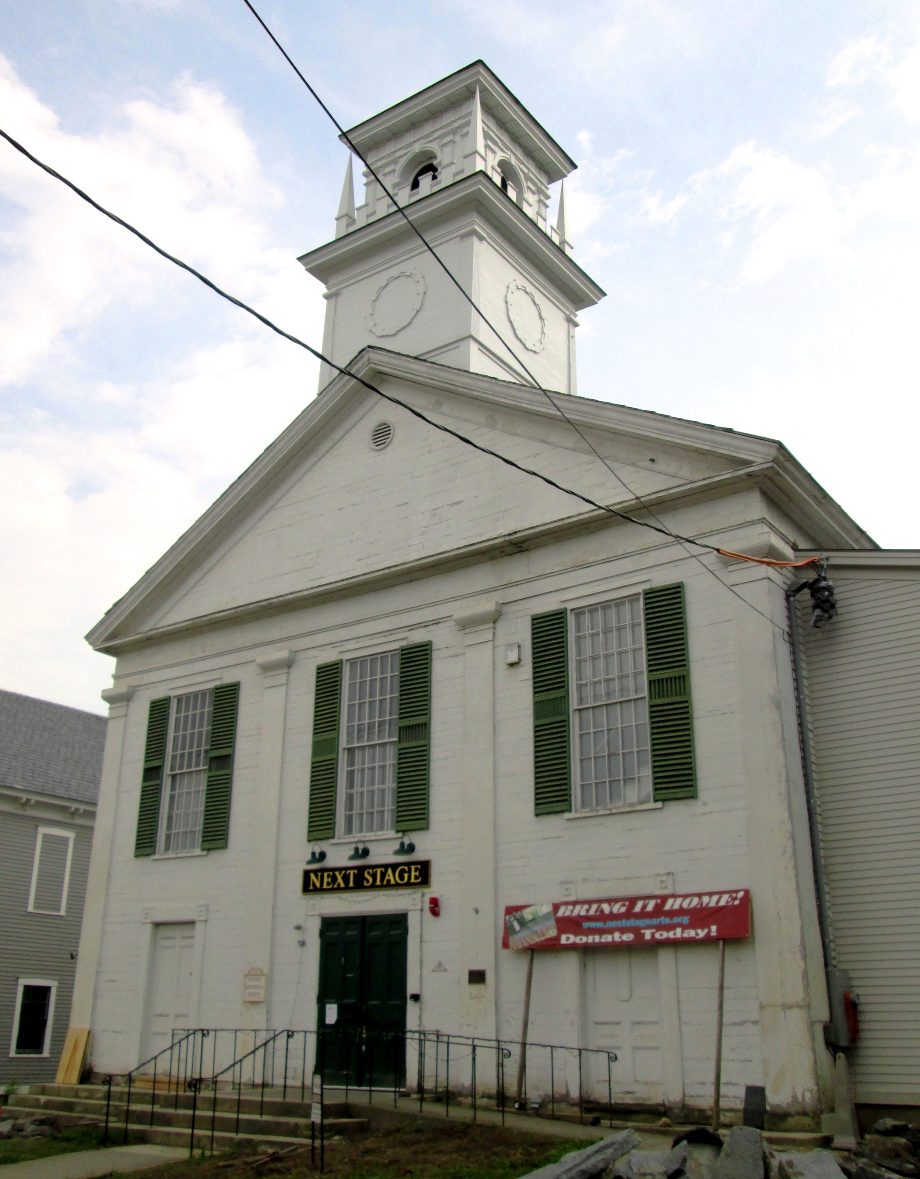 The former Putney Federated Church, located at 15 Kimball Hill in Putney, Vermont, was built in 1841, and is now the Next Stage Arts Project and the headquarters for the Putney Historical Society. It is part of the Putney Village Historic District. (Sources: "About Us" Next Stage, "About PHS" Putney Historical Society, and historic marker on building]